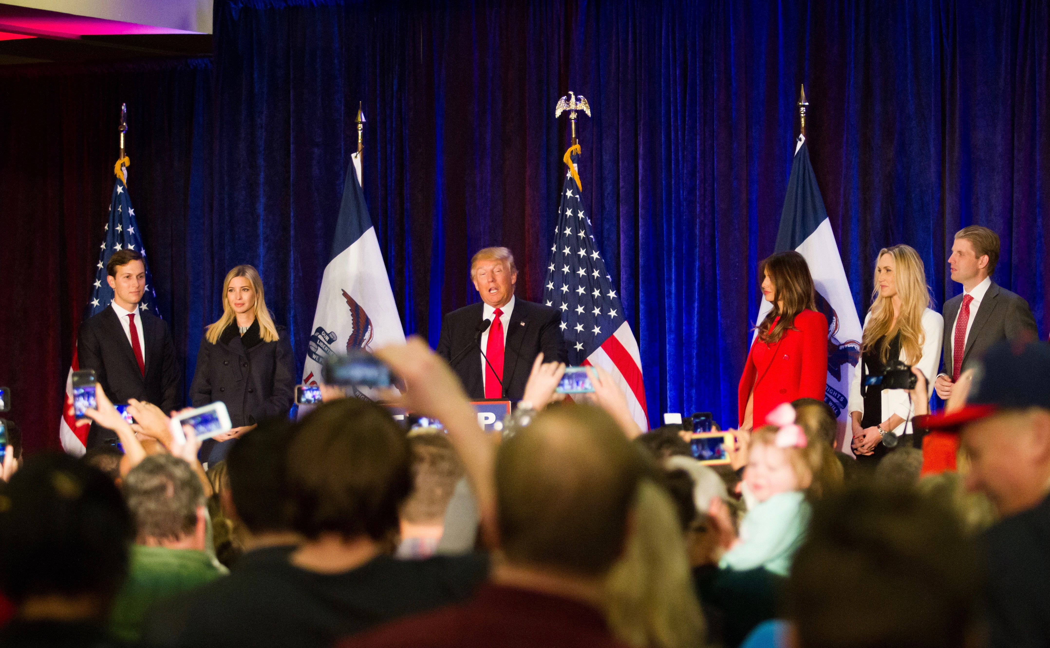 After securing his place in the top three in the Republican caucuses, presidential candidate Donald Trump spoke briefly to a crowd a watch party, Feb 2 in West Des Moines. Trump said, "I love you people, I love you people, thank you very much."